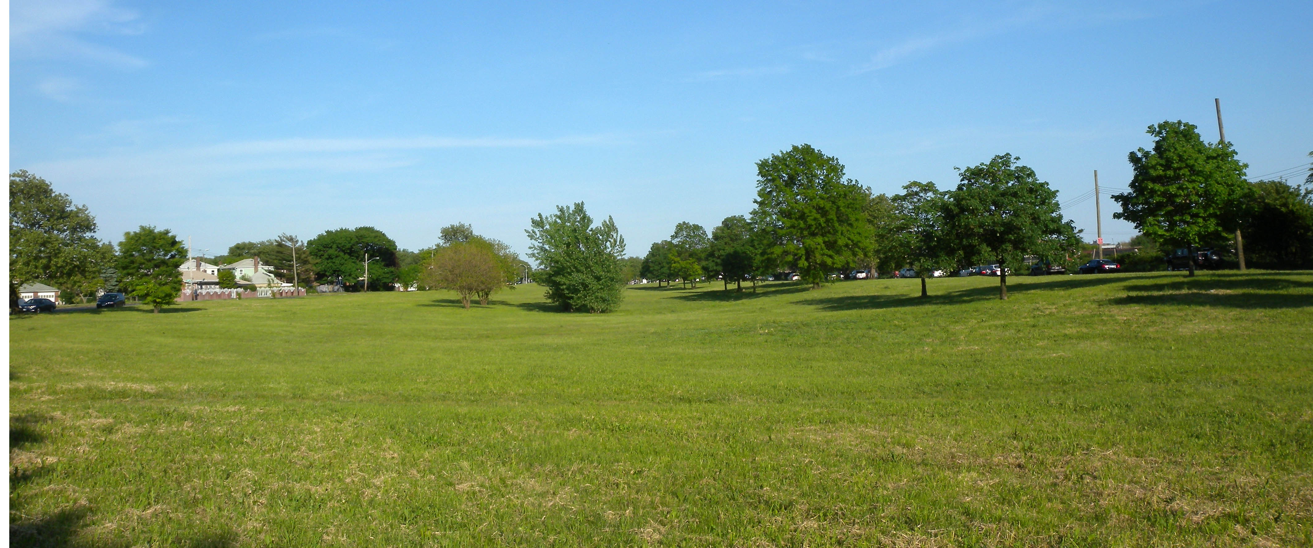 Looking east from Sutter Avenue in Brooklyn into the broad median of Conduit Boulevard in Queens on a sunny afternoon.